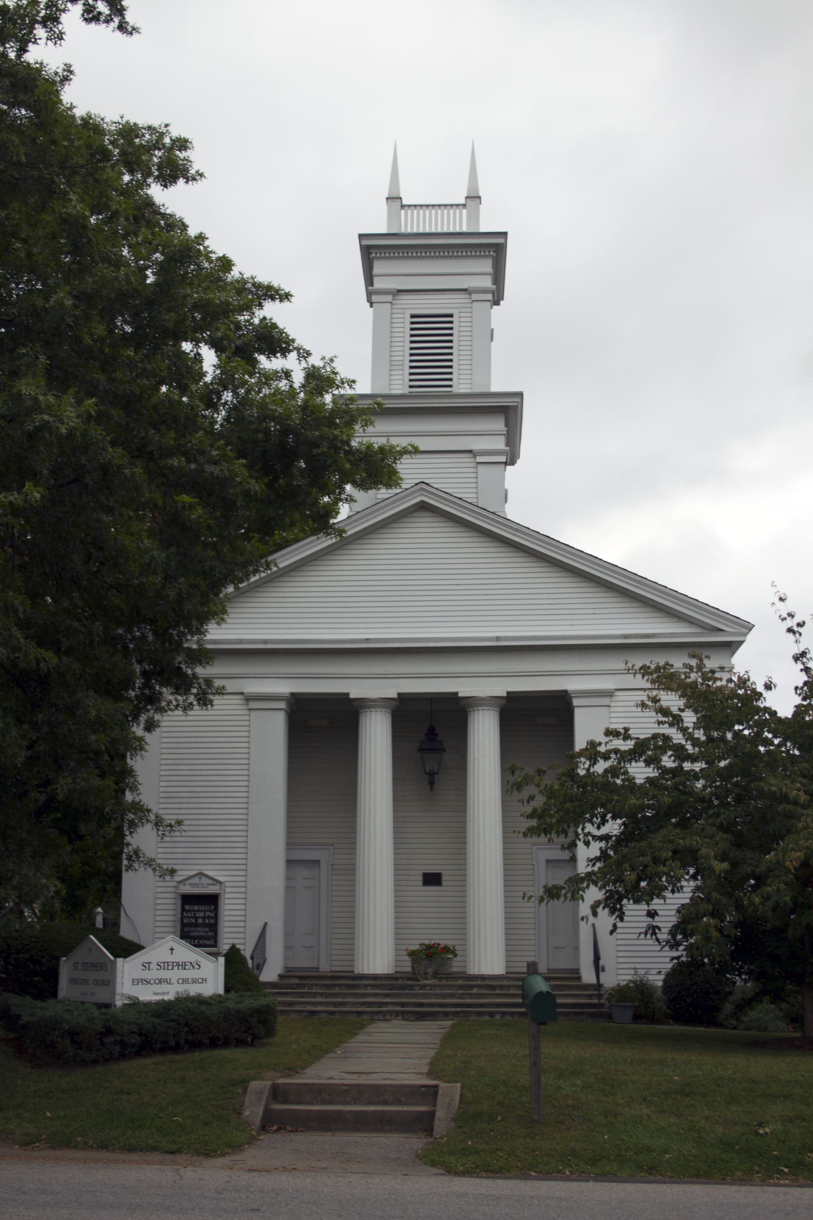 Bedford Road Historic District St Steffen's Church